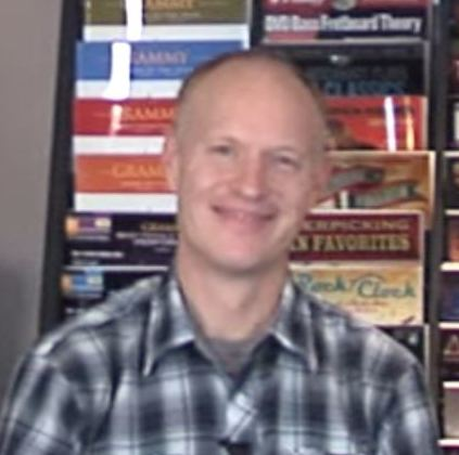 Cropped video still of The Piano Guys being interviewed by Music Express Magazine in 2014